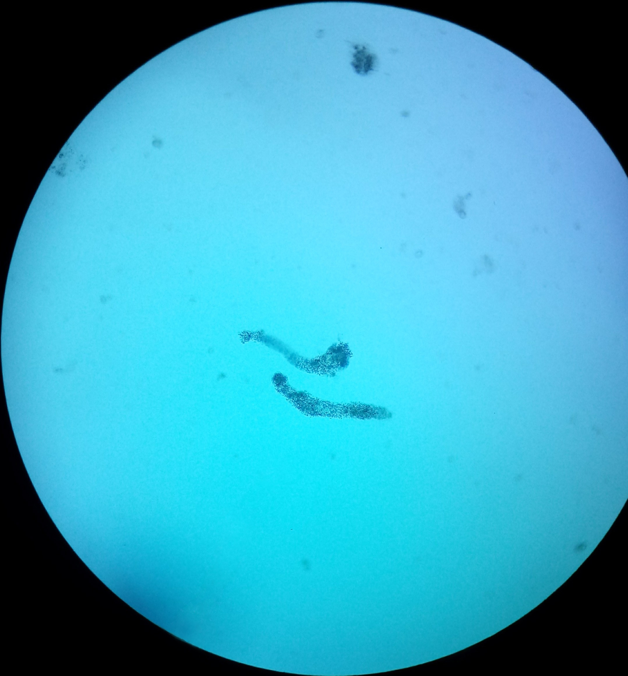 Amoeba proteus under a light microscope